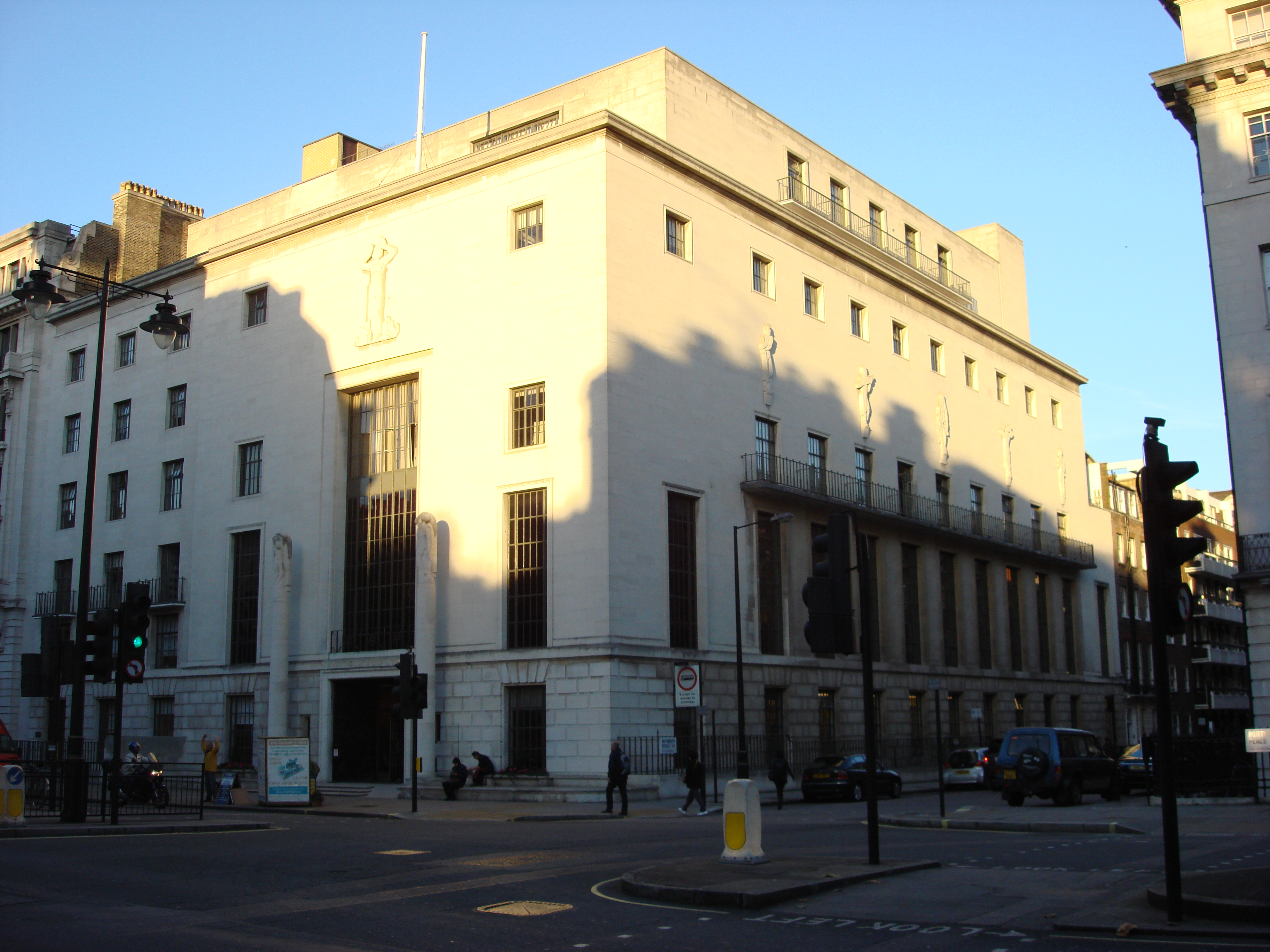 Royal Institute of British Architects, 66 Portland Place, a 1930s Grade II* listed building designed by architect George Grey Wornum.